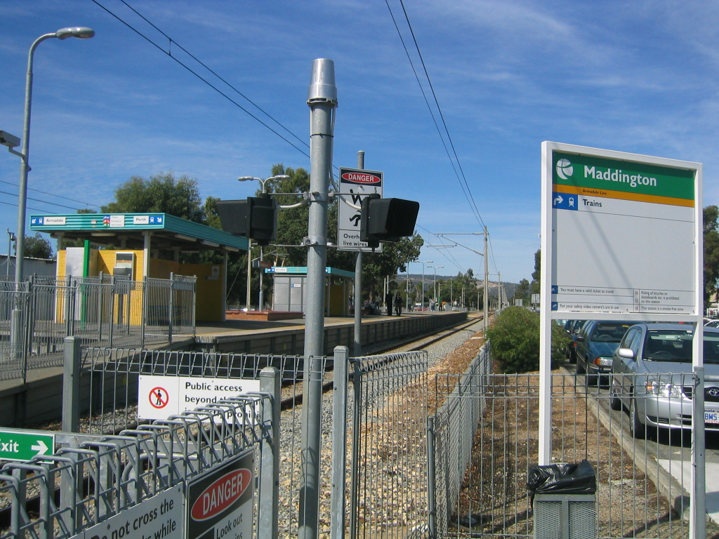 Transperth Maddington Train Station